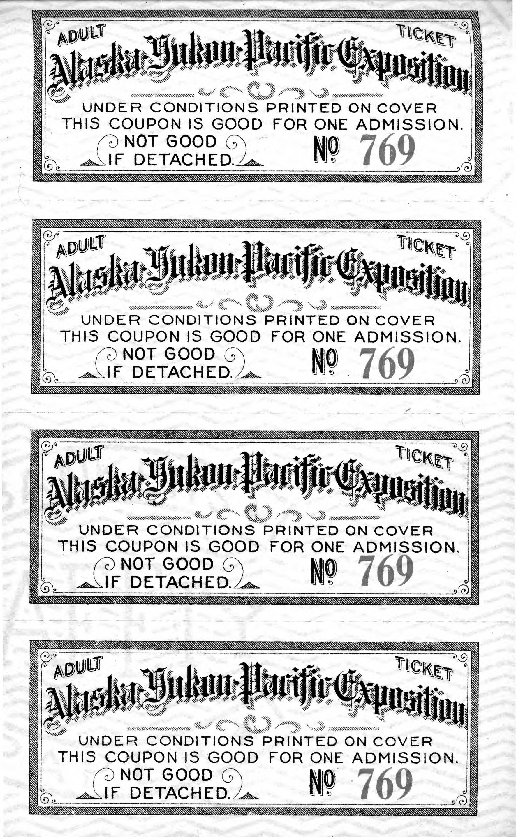 From the materials for the Alaska-Yukon-Pacific Exposition of 1909, held in Seattle.